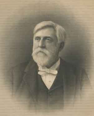 Confederate colonel and Kentucky Congressman William Campbell Preston (W.C.P.) Breckinridge